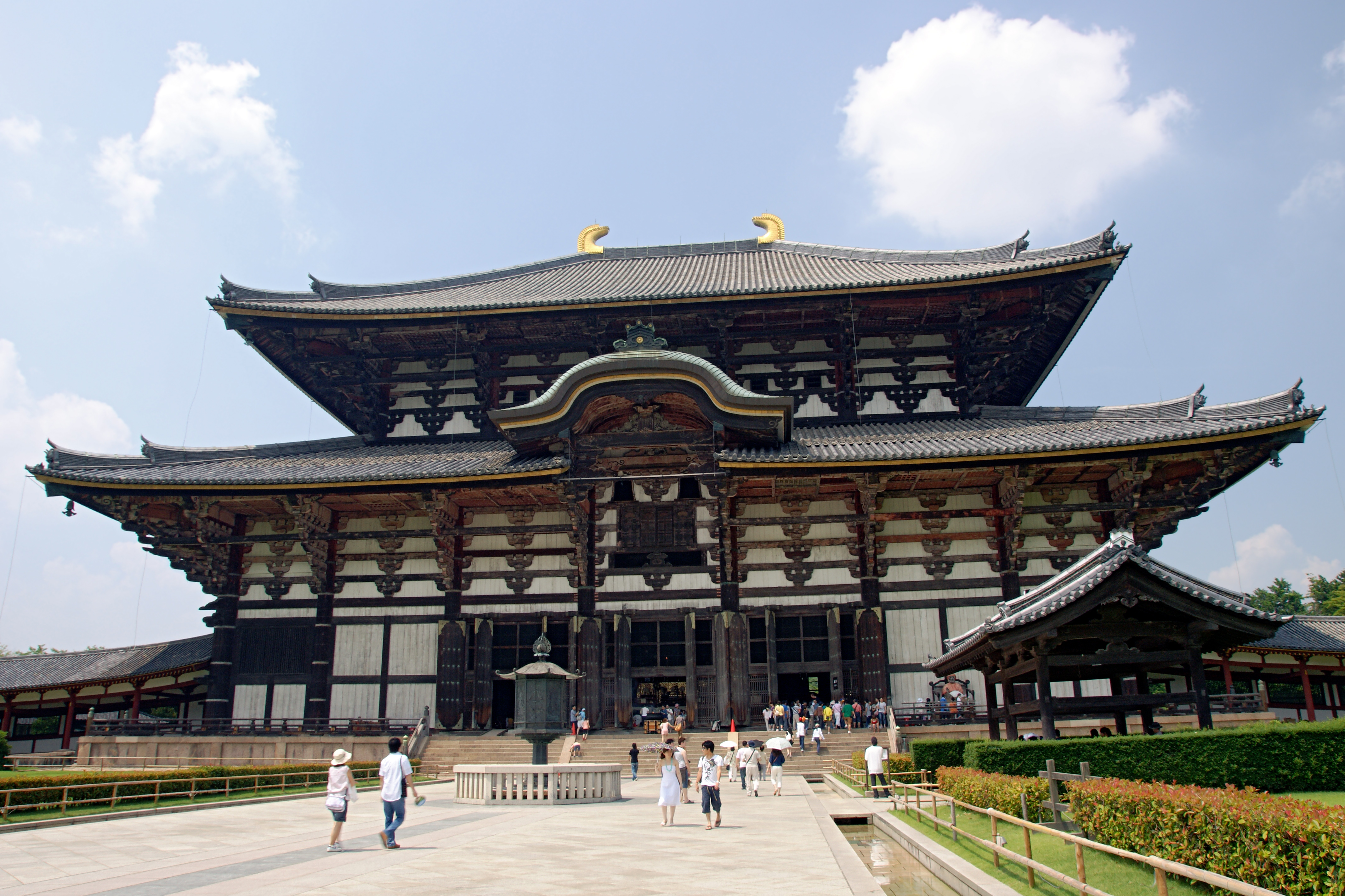 Tōdai-ji's Golden Hall is a Japan's National Treasure, in Nara, Nara prefecture, Japan